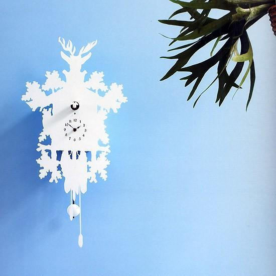 Contemporary cuckoo clock designed by Pascal Tarabay for the Italian design firm of furniture and home accessories, Diamantini & Domeniconi. It presents the silhouette of the typical cuckoo clock with deer head but without any sort of three-dimensional woodwork, it only has a flat surface with a gap, from which the bird pops out as usual